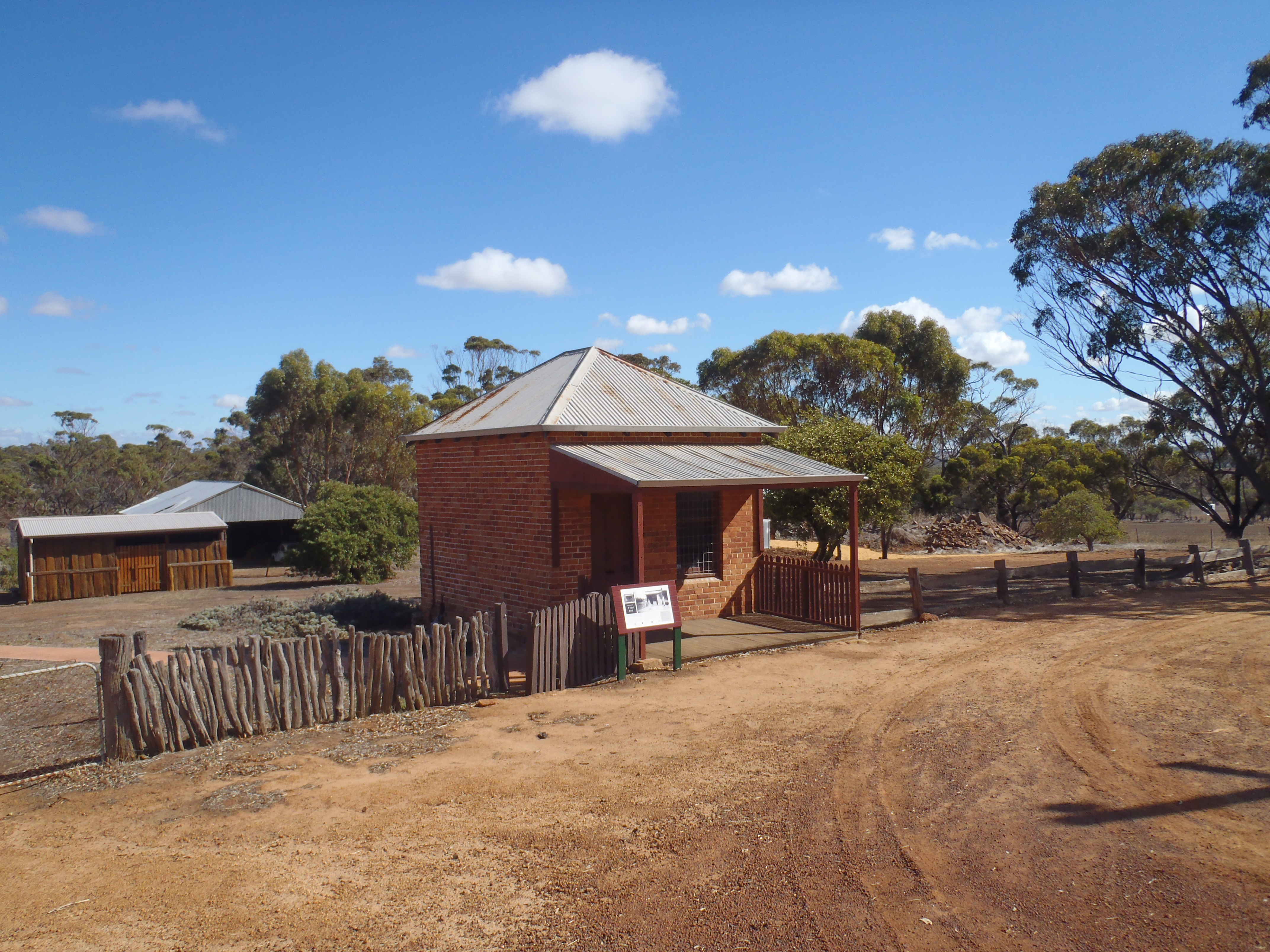 Arthur River old postoffice building